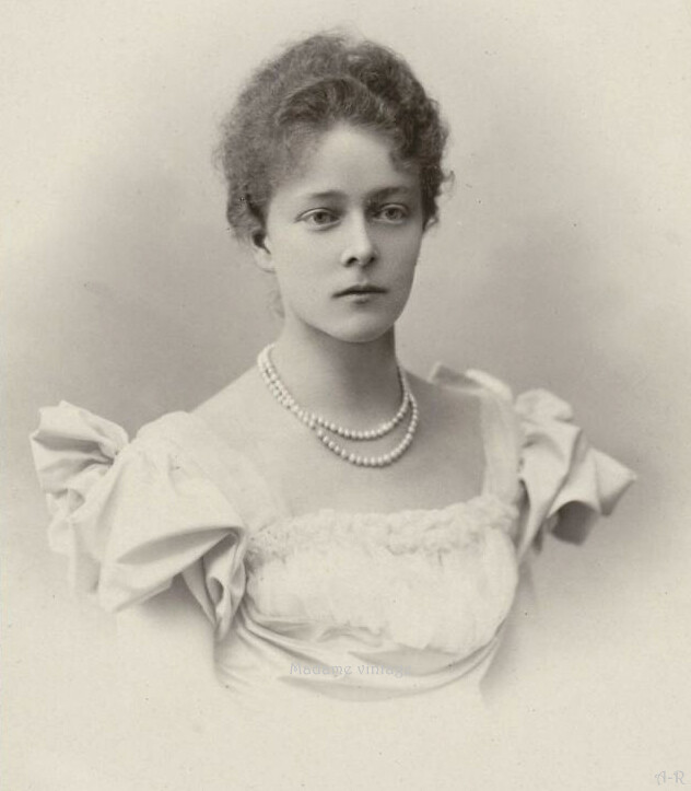 Prinzessin Sophie Adelheid in Bayern